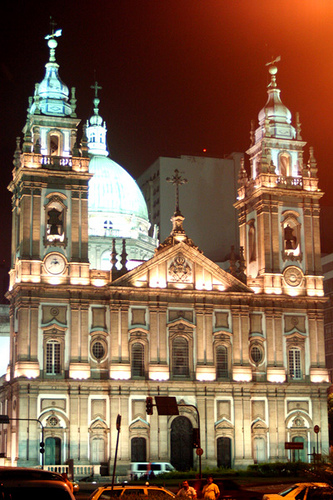 Candelária Church - Rio de Janeiro, Brazil